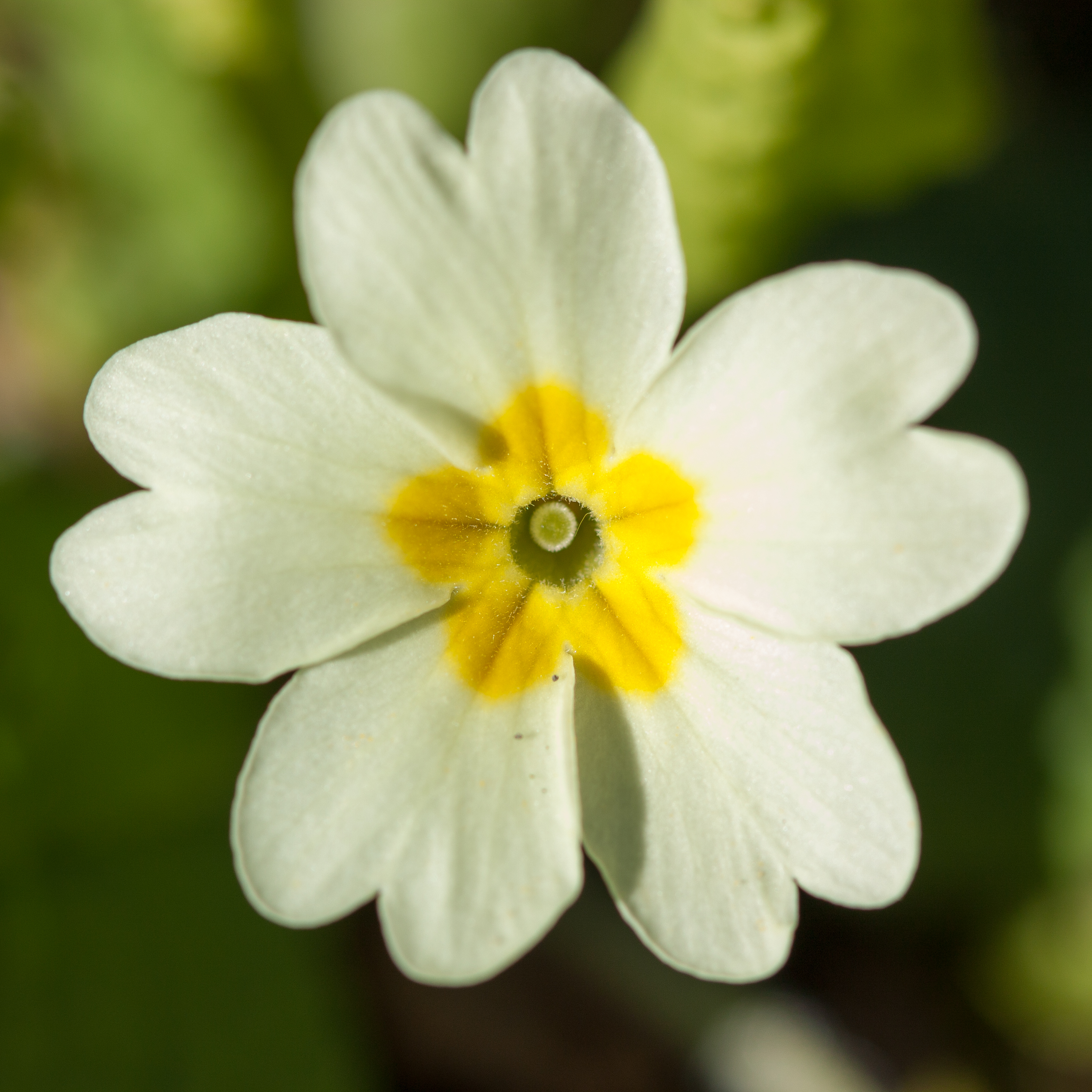 Primula vulgaris is a species of Primula native to western and southern Europe. This photography of a wild primrose was taken in Ille-et-Vilaine (France) on April 16, 2012.